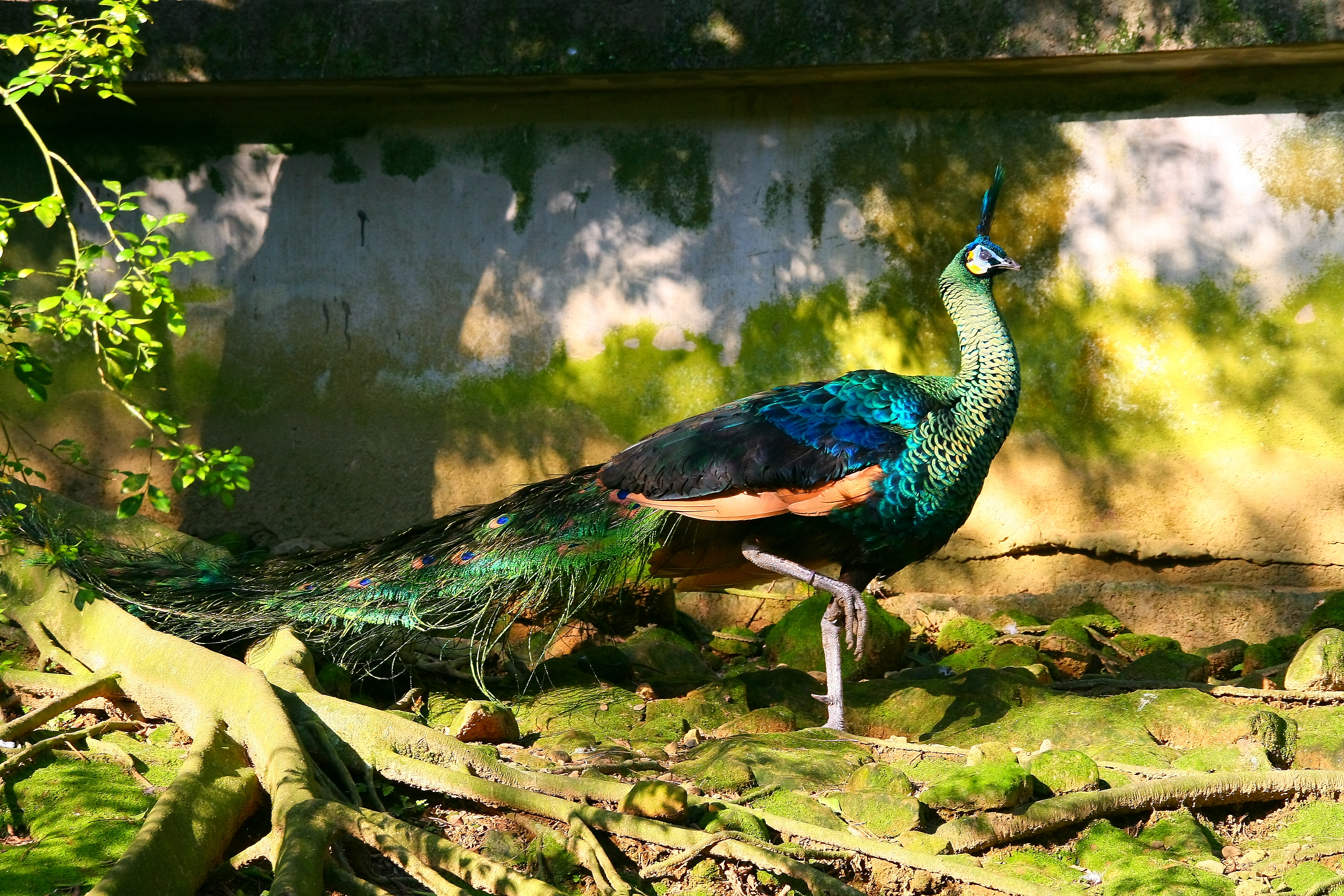 Green Peafowl of unknown provenance, photographed at Taipei Zoo. Presumed to be imperator